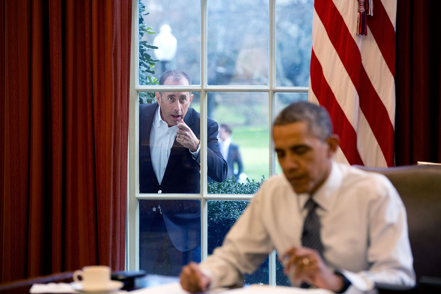 Dec. 7, 2015 “Comedian Jerry Seinfeld knocks on the Oval Office window to begin a segment for his series, ‘Comedians in Cars Getting Coffee.’” (Official White House Photo by Pete Souza)